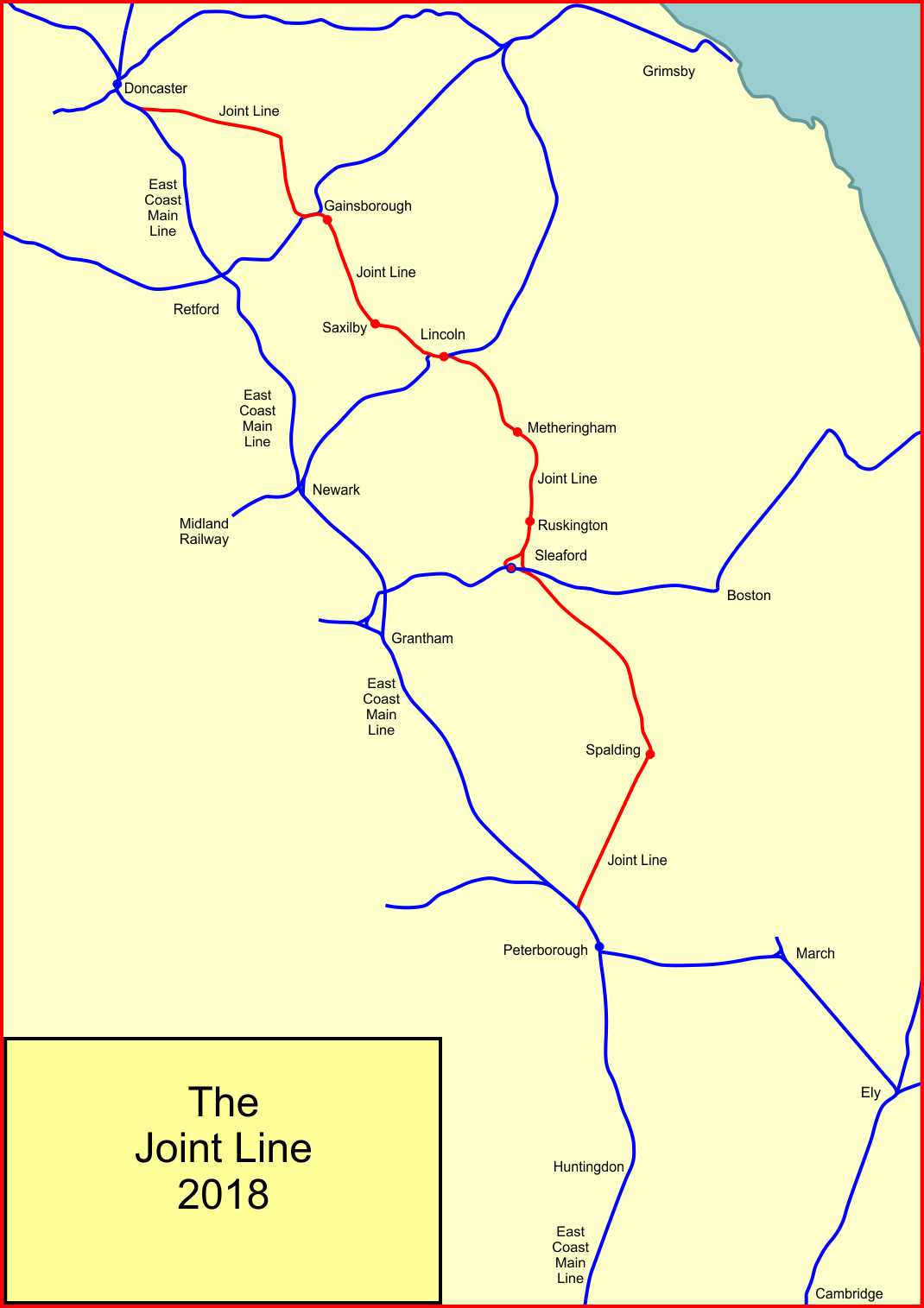 System map of the former GN and GE Joint Railway Line, England, in 2018